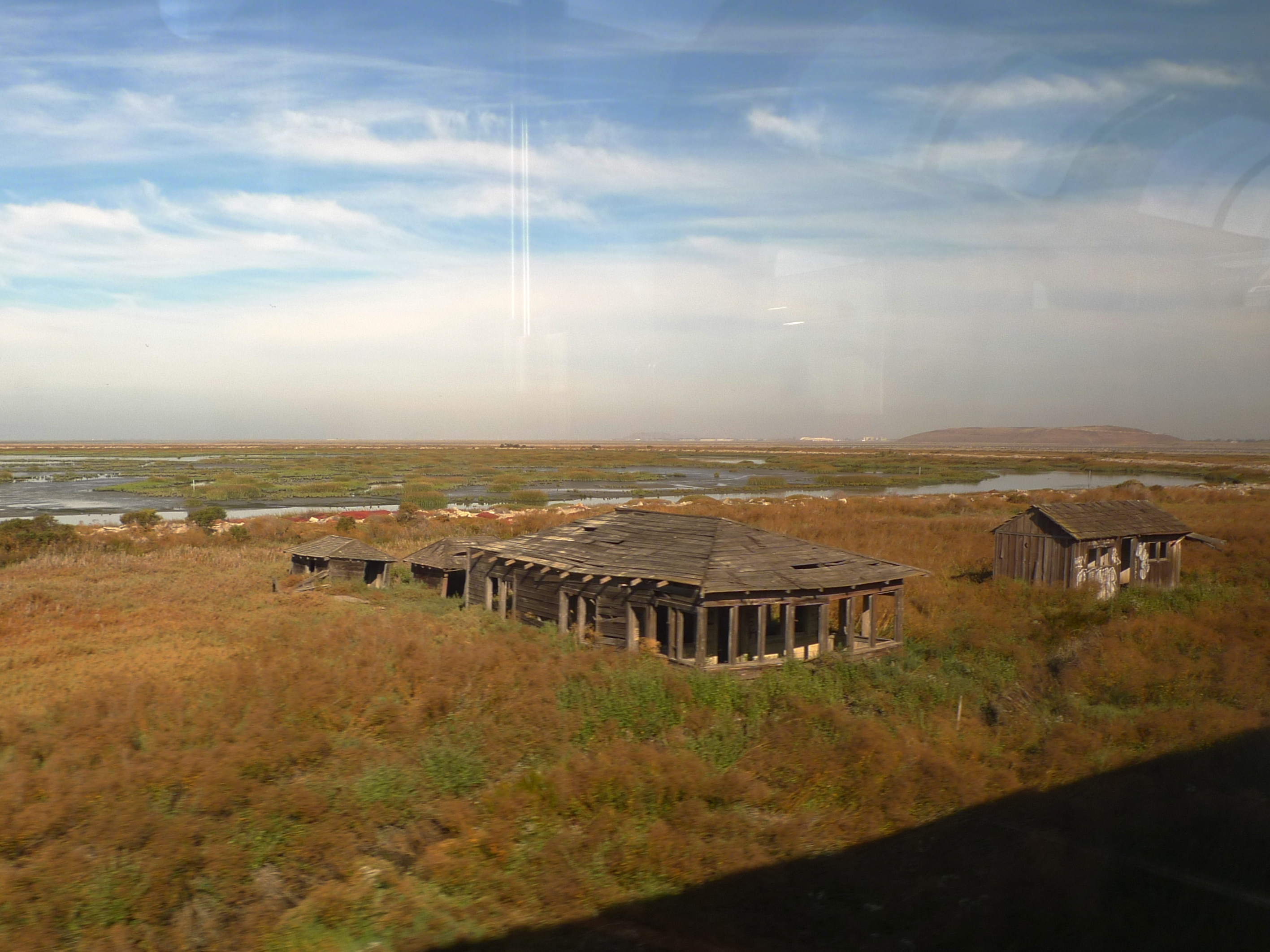 Abandoned buildings in Drawbridge, California in September 2012